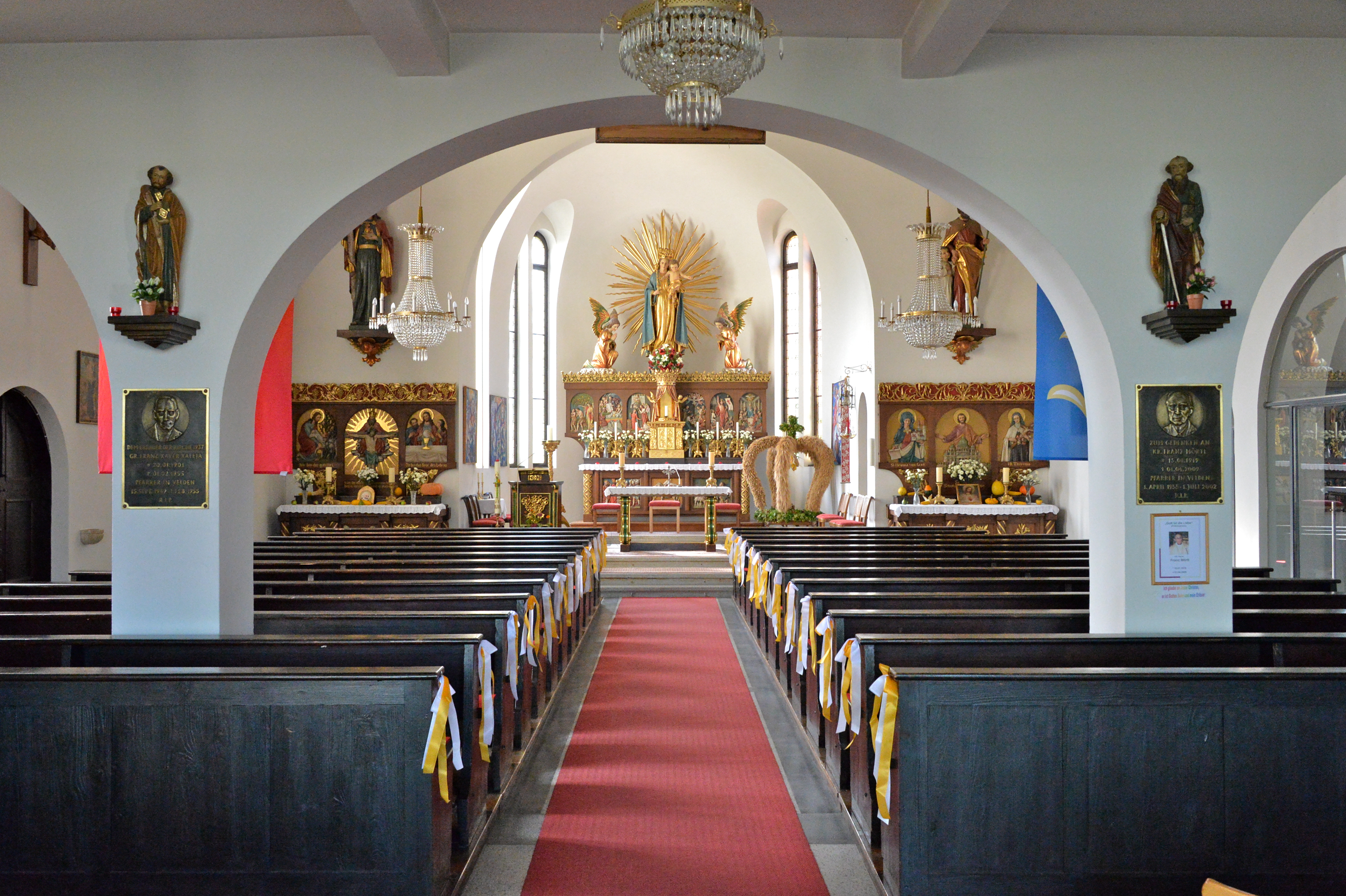 Nave of the Roman Catholic parish church Our Lady on Kirchenstrasse #23, market town Velden am Wörther See, district Villach Land, Carinthia, Austria, EU